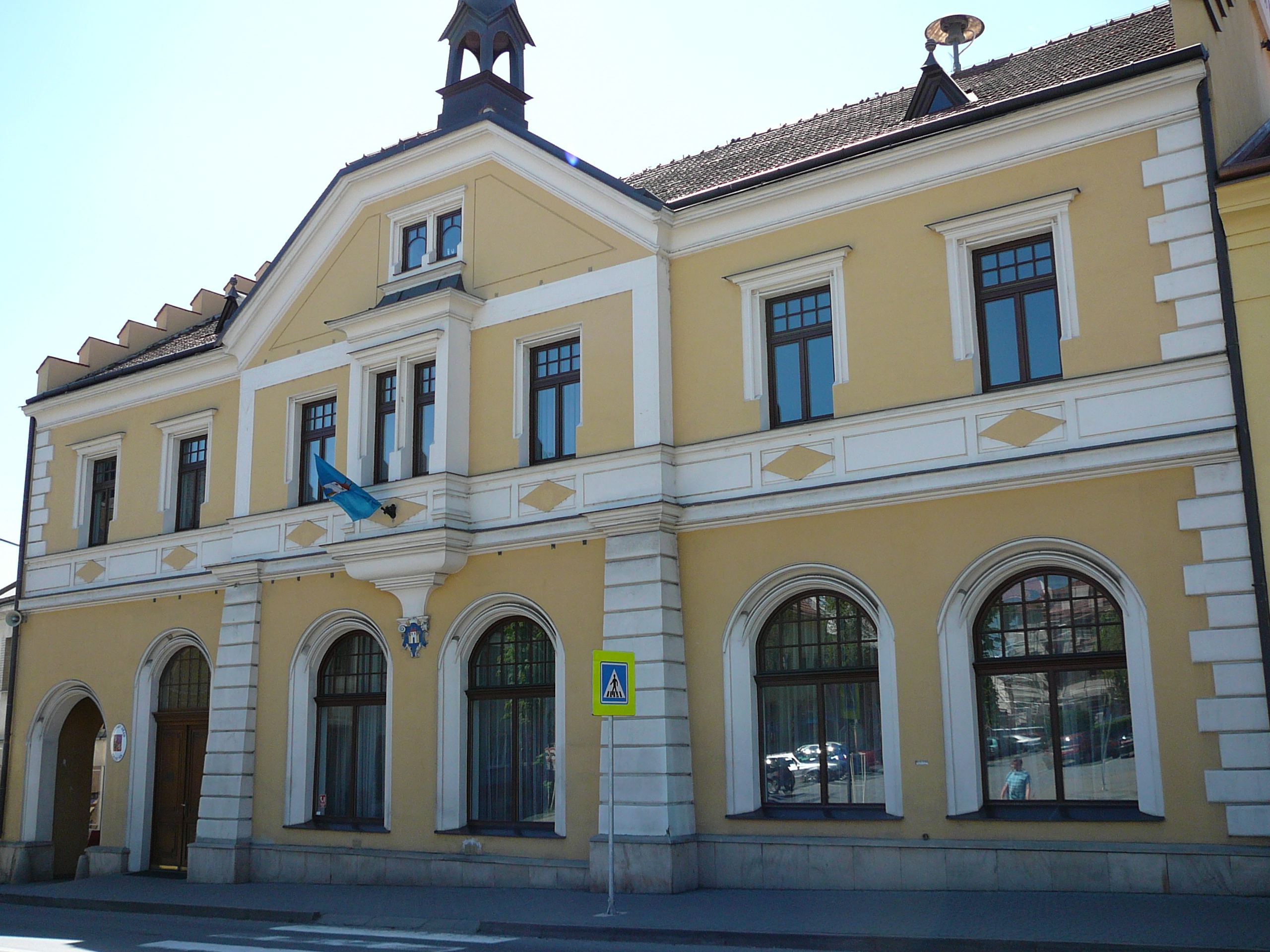 Town hall of Fryšták (CZE)